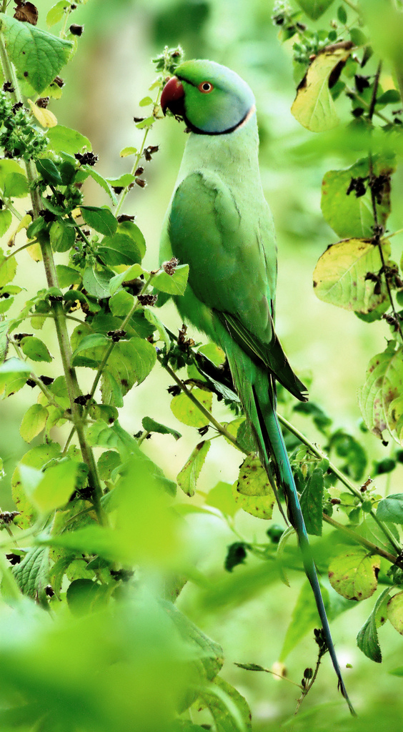 Rose-ringed Parakeet Psittacula krameri, Cheruthuruthy, Kerala, India.